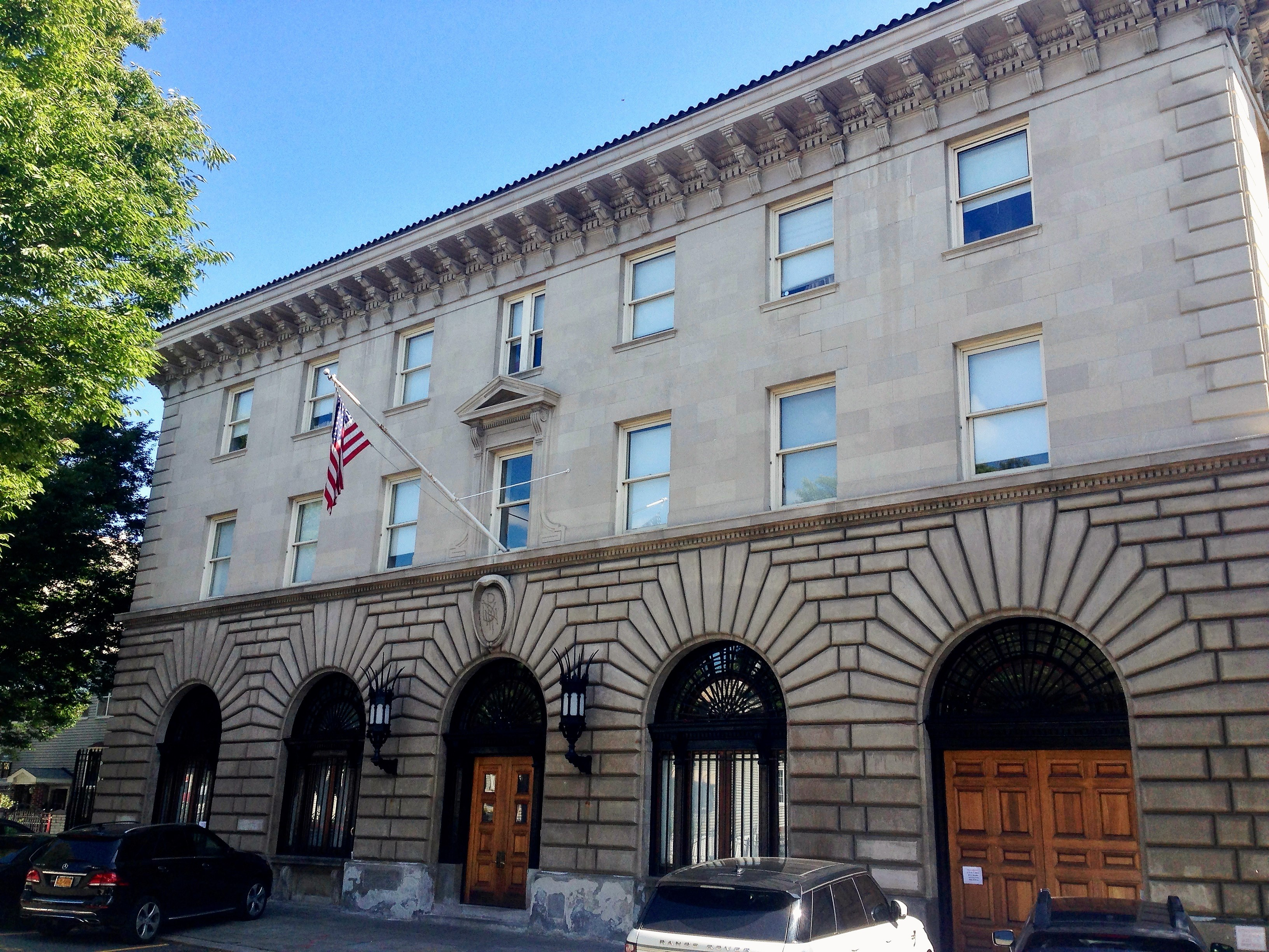 1086 Simpson Street police building "Fort Apache". Originally housed the 41st precinct in the Bronx. Now home to the NYPD Bronx Detectives Bureau.